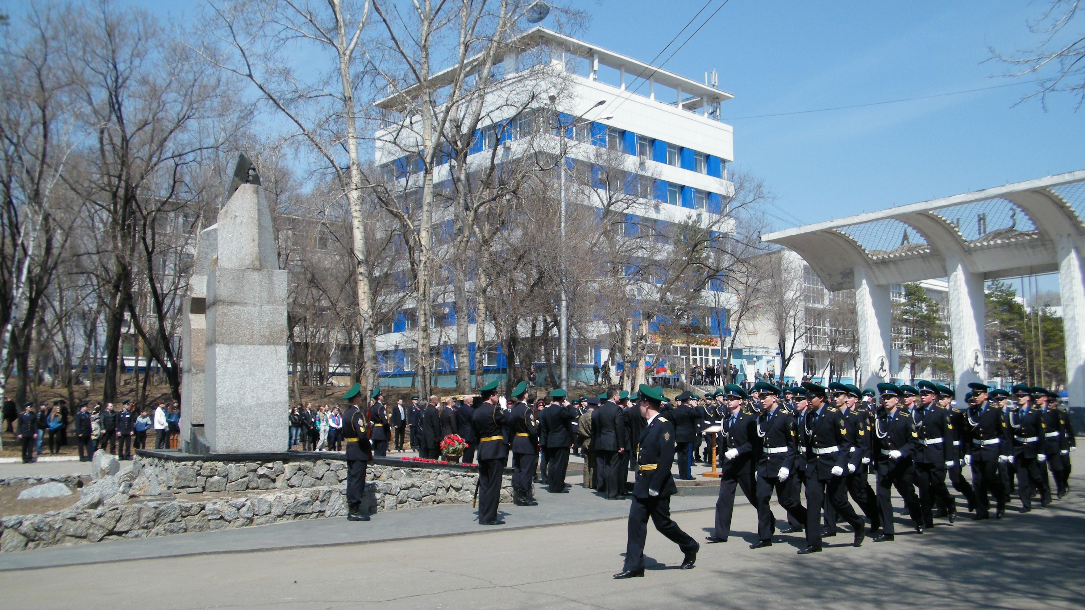 Курсанты Хабаровского пограничного института